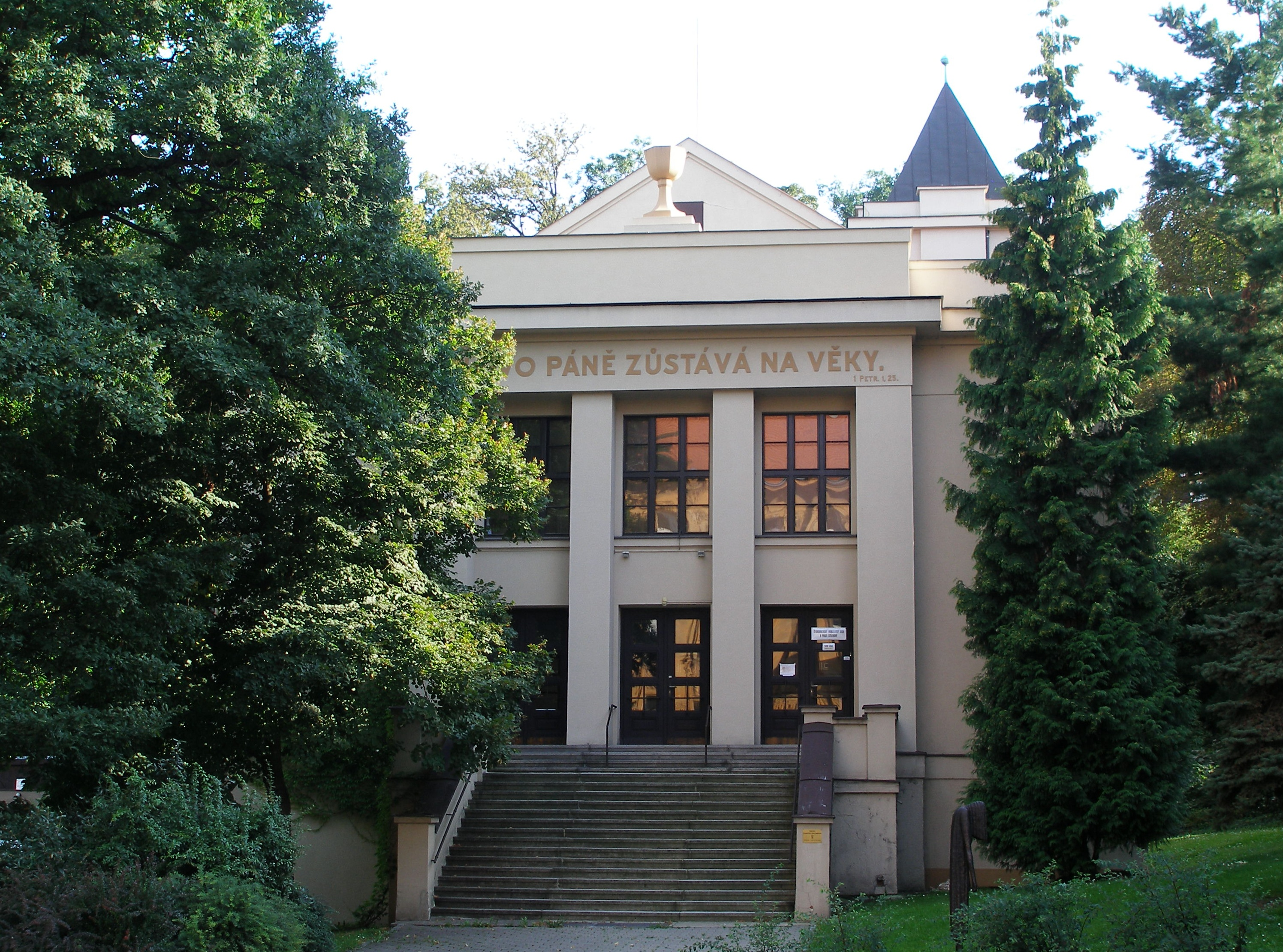 Prague 5 - Smíchov, kostel ČCE